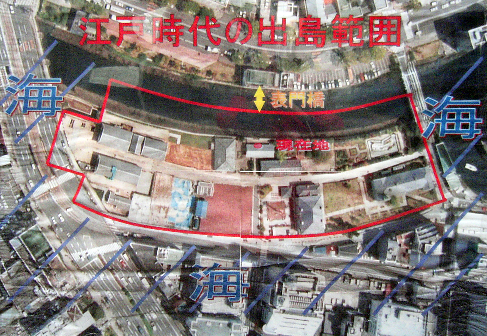 Edo-era boundaries of Dejima island (outlined in red) within the modern city of Nagasaki. The city has long since enveloped and surrounded the former island. A portion of the former island has been permanently demolished to widen the river at the top of the picture. This photograph is taken from a sign posted at Dejima and shows the current state of reconstruction work as Dutch-era buildings are currently being restored one by one based upon old pictures and models. Taken by Keith Finch, December 30, 2004.